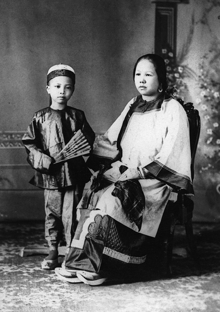 Photograph, Mrs. Wing Sing and son, Montreal, QC, 1890-95, Madame Gagné, Silver salts on paper mounted on card - Albumen process - 17 x 12 cm